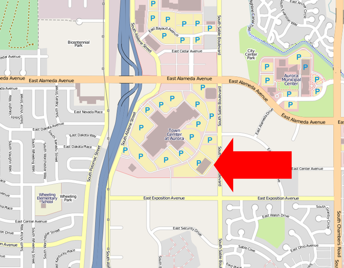 Where the shooting occurred in the city of Aurora, United States.